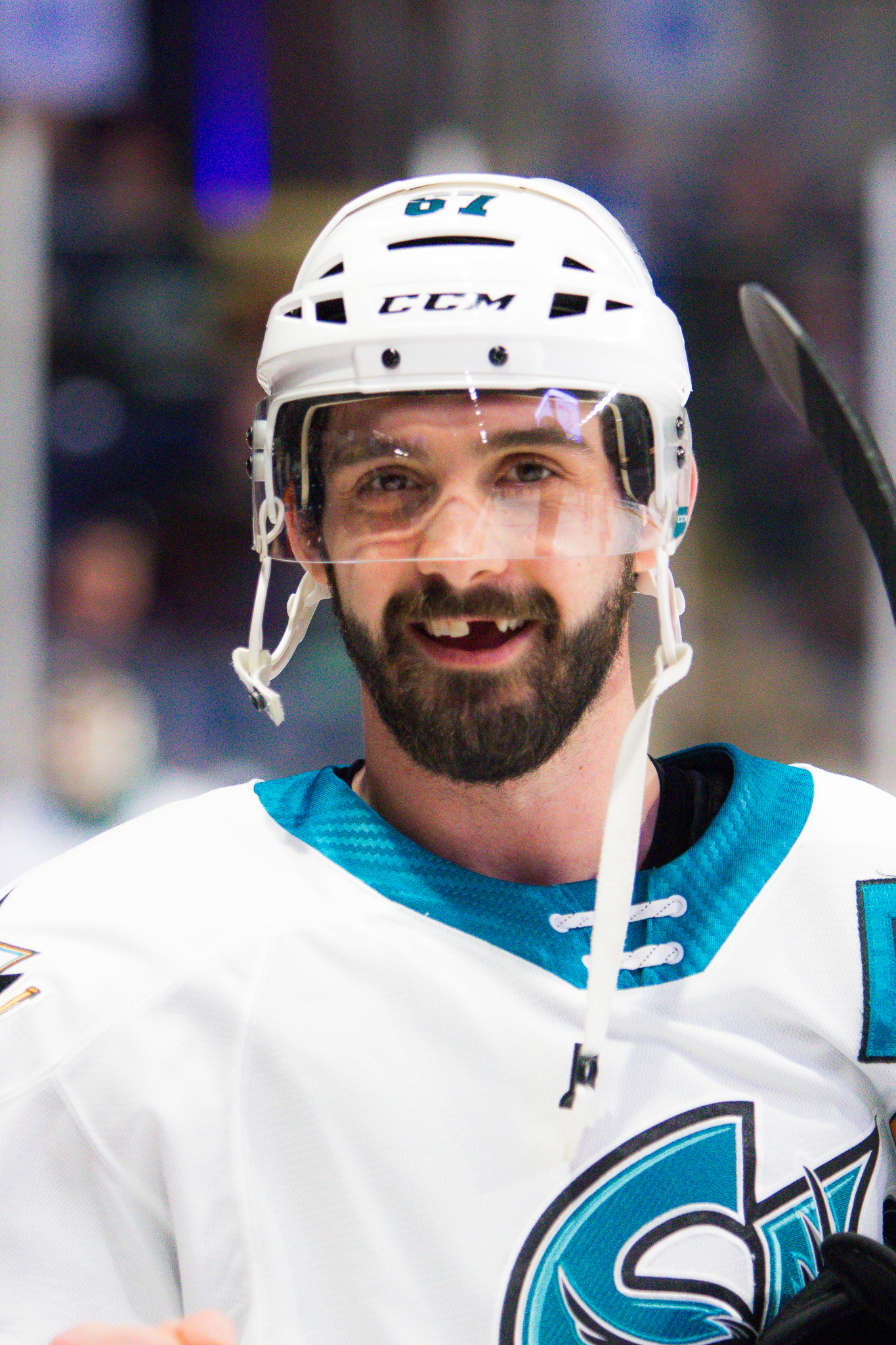 Photo By: Kelly Shea